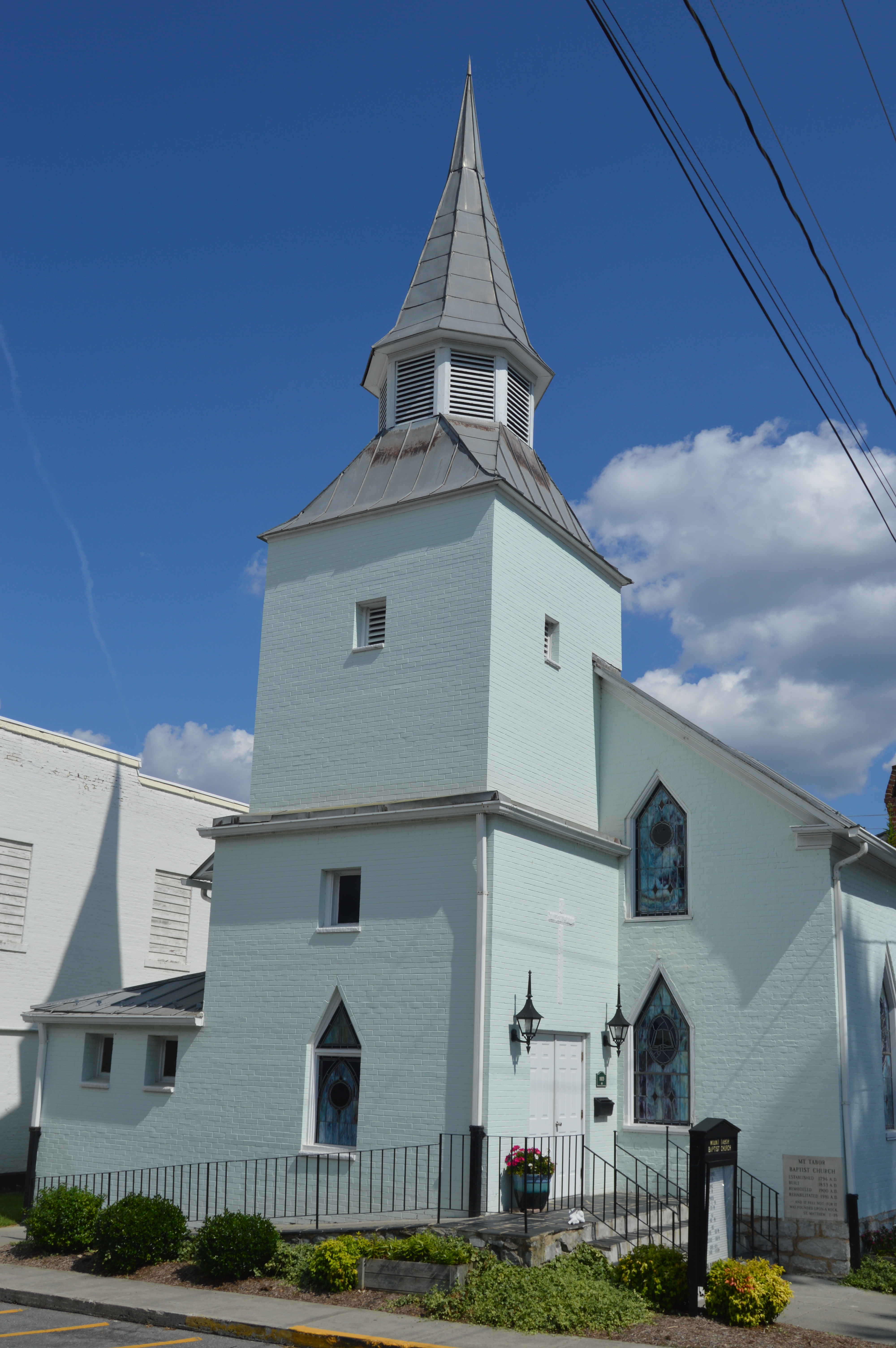 Front of the Mt. Tabor Baptist Church, located on W. Washington Street (U.S. Route 60) at Courtney Drive in Lewisburg, West Virginia, United States. Built in 1832, it is listed on the National Register of Historic Places.